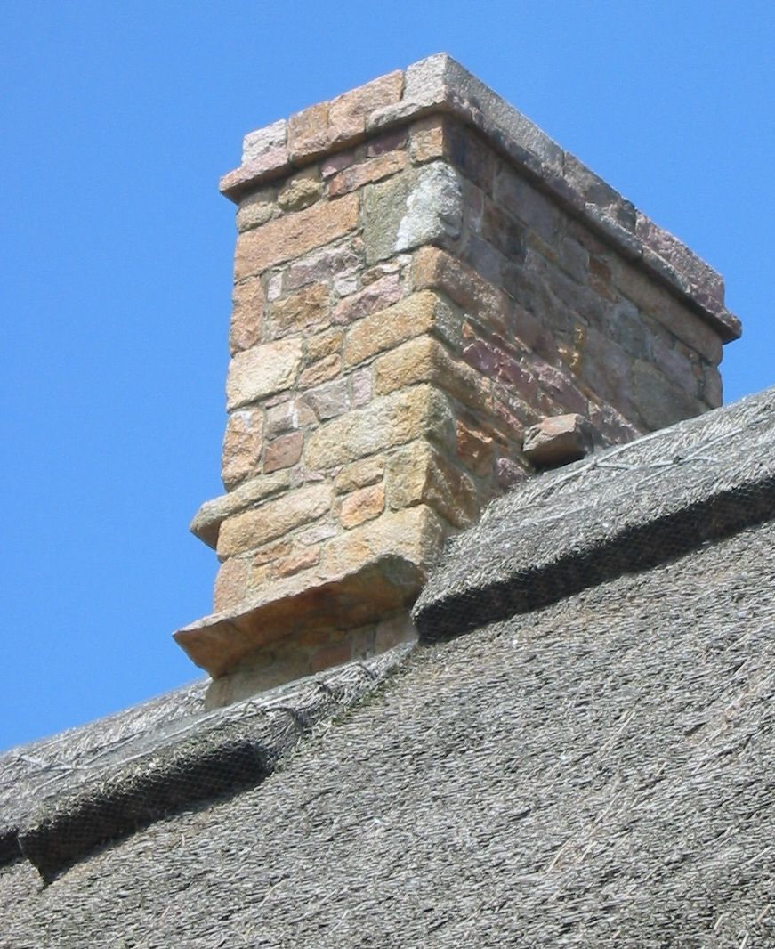 Witches' stones on a chimney in Jersey. In folklore, these are believed to provide resting-places for witches - in fact they were to protect the joins of thatched roofs from seeping water. Photo taken by Man vyi with Canon PowerShot A40 on 11/6/2005